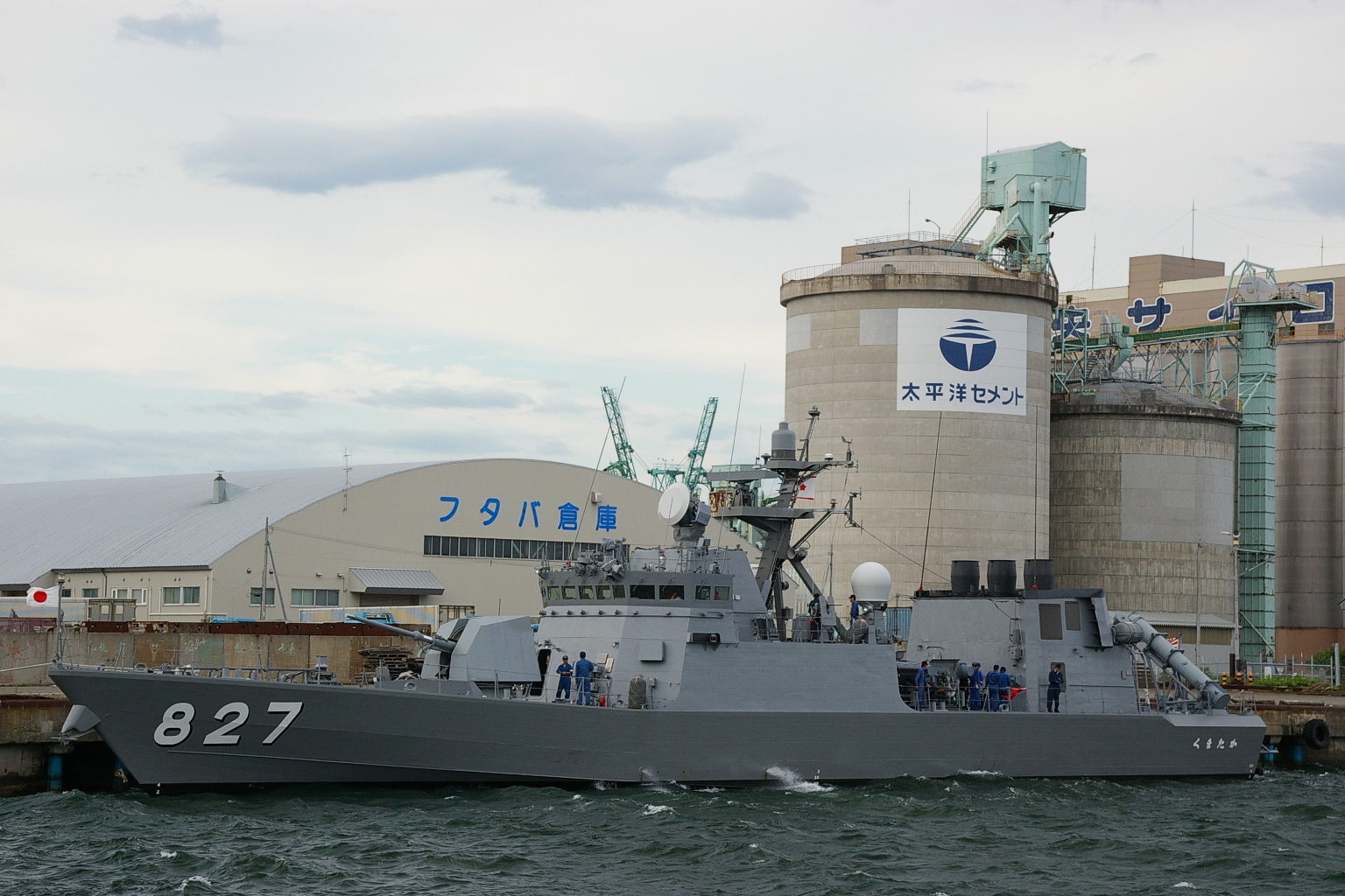 JMSDF PG-827 KUMATAKA.